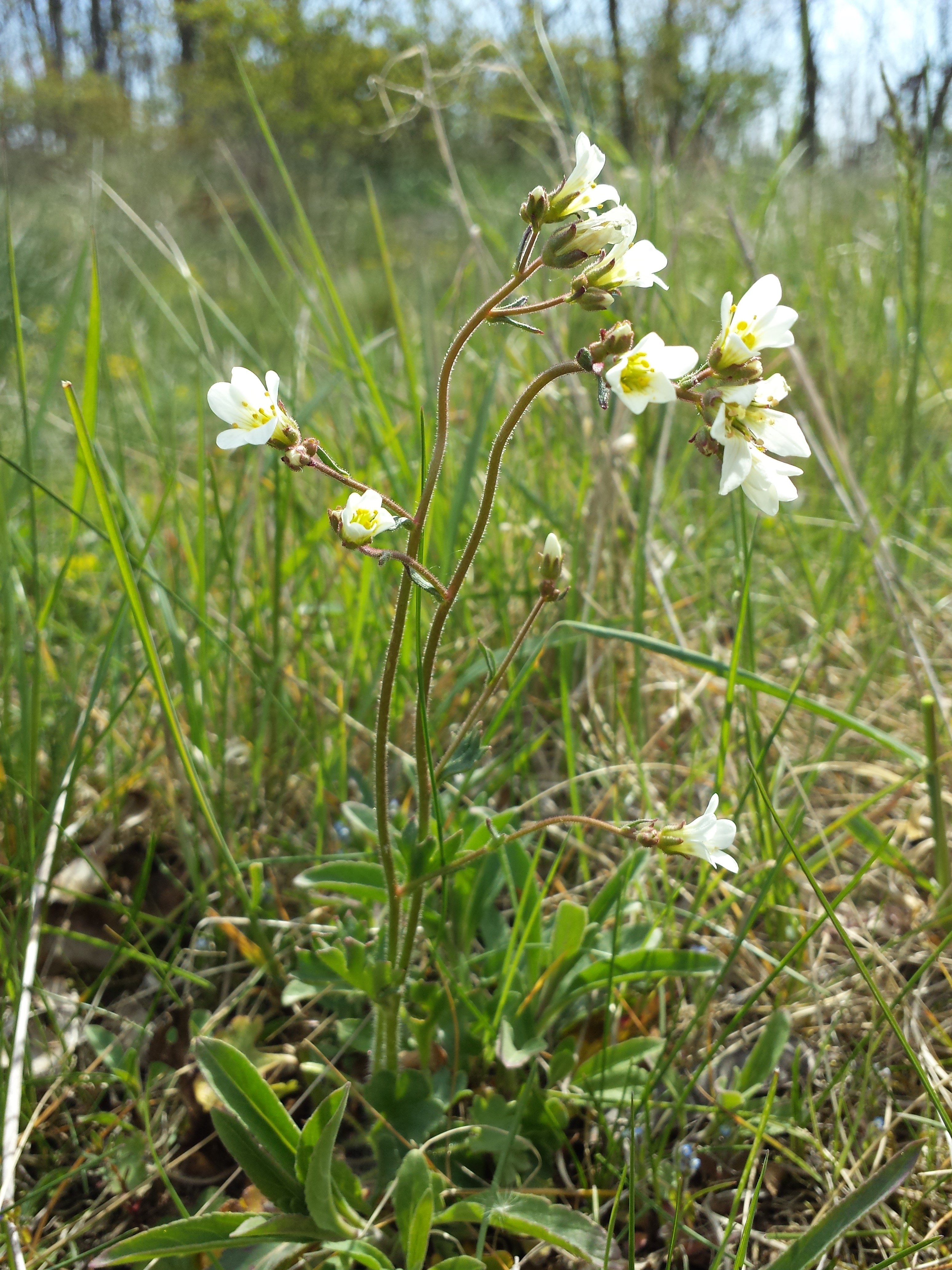 Habitus Taxon: Saxifraga granulata (sensu Fischer et al. EfÖLS 2008 ISBN 978-3-85474-187-9) Location: nature reserve Kogelsteine-Fehhaube, district Horn, Lower Austria - ca. 330 m a.s.l. Habitat: dry grassland (silicate rock) This media shows the nature reserve in Lower Austria with the ID 68. This media shows the natural monument in Lower Austria with the ID HO-047.